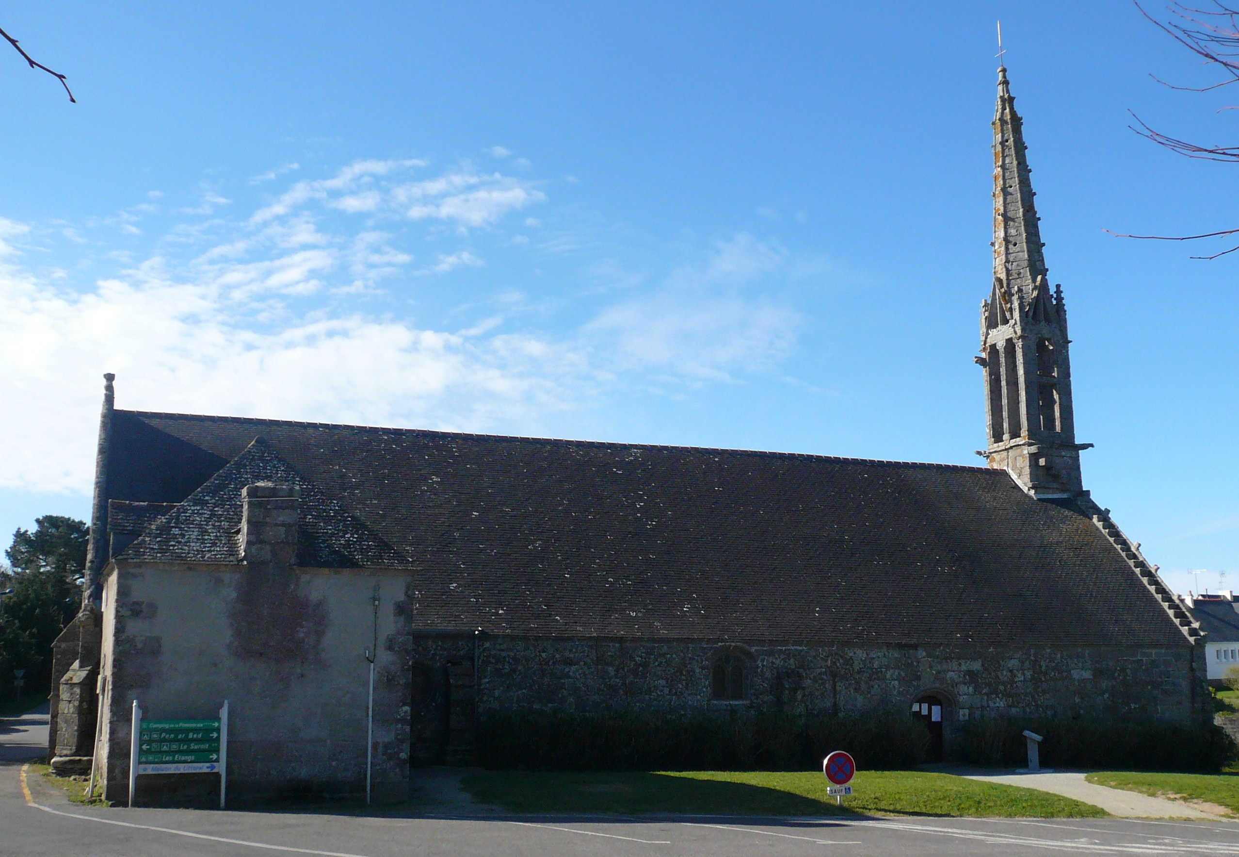 Global view of Saint-Philibert's chapel in Saint-Philibert, Trégunc, Finistère, Britanny, France. Shot from north.